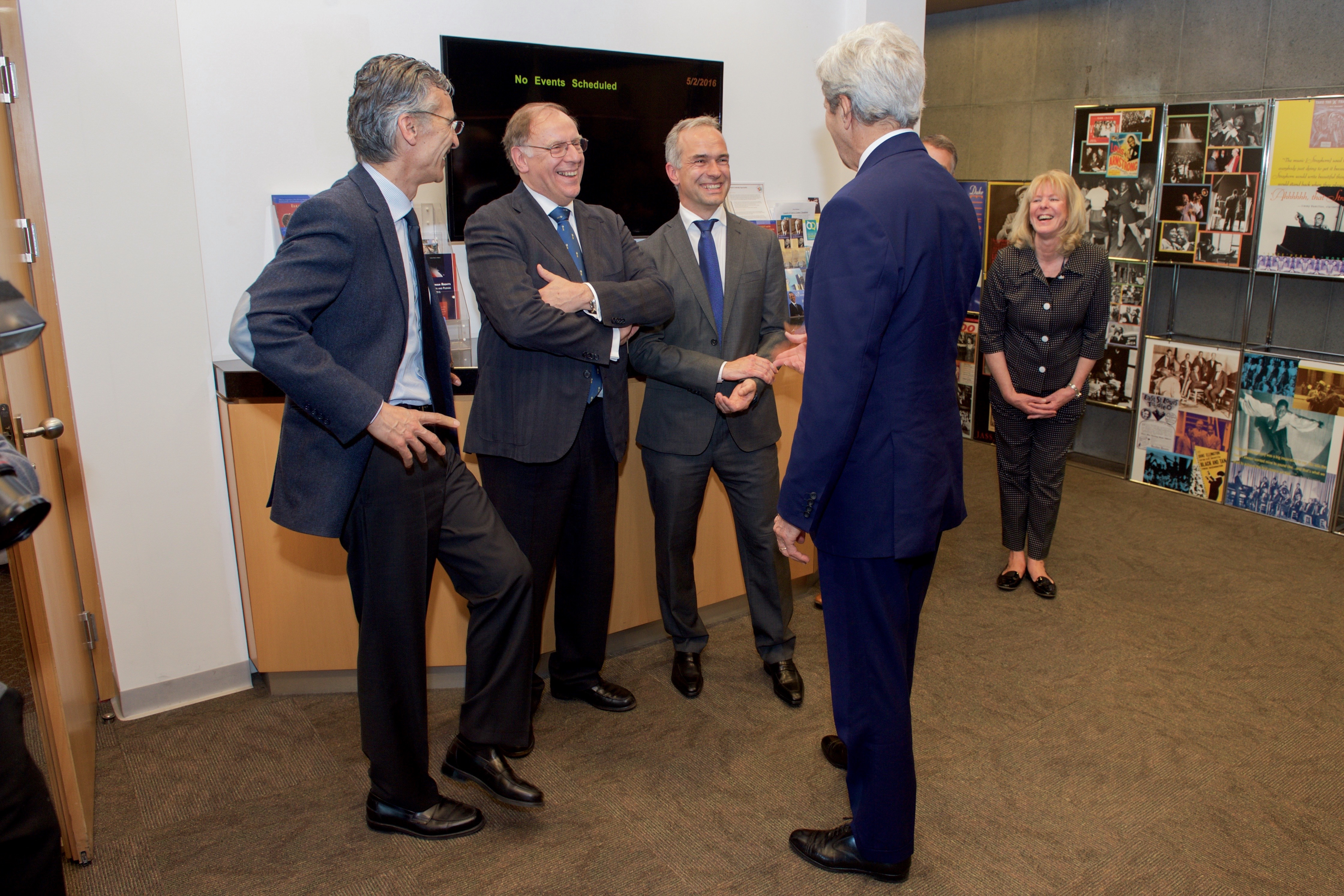 U.S. Secretary of State John Kerry shares a laugh with doctors from the University Hospitals of Geneva in Geneva, Switzerland, on May 2, 2016, as he visited the U.S. Mission in Geneva and thanked the first responders who treated him after he broke his leg in a biking accident in nearby France on May 31, 2015. [State Department photo/ Public Domain]